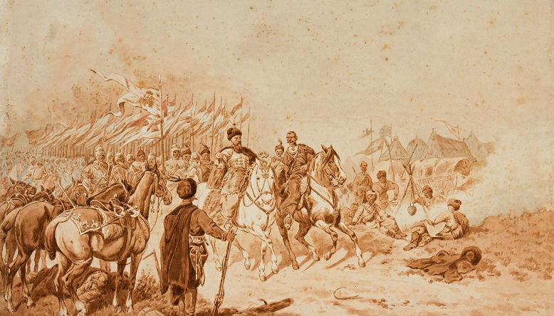 Fredro at Smolensk 1633